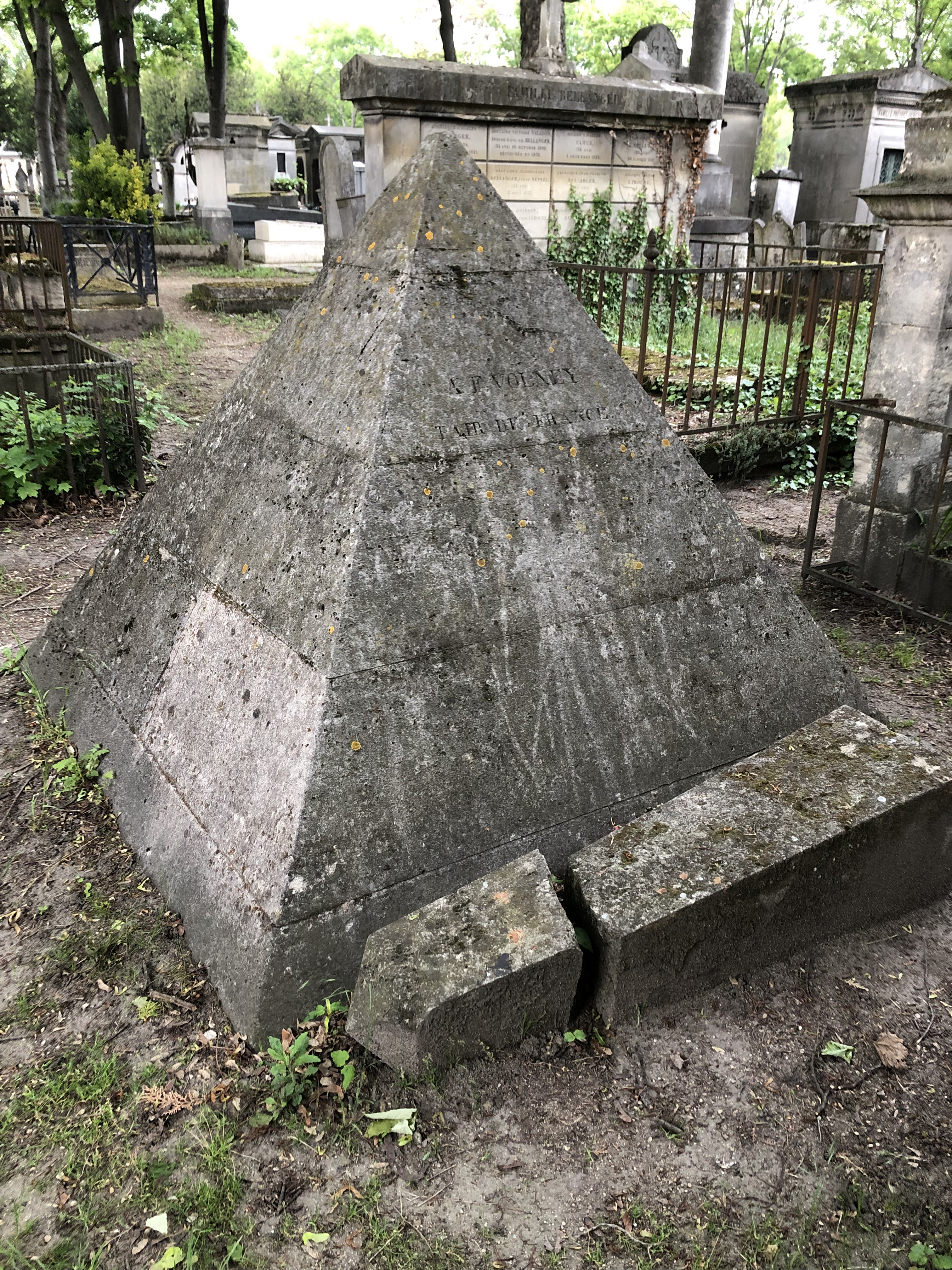 Pyramid gravestone of Constantin_François_de_Chassebœuf,_comte_de_Volney in Père Lachaise with precisely correct GPS data. 48.85976x2.39673